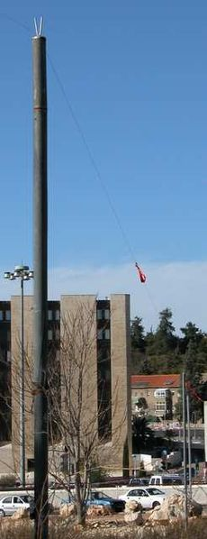 This is a photo of a small section of an eruv in Jerusalem.